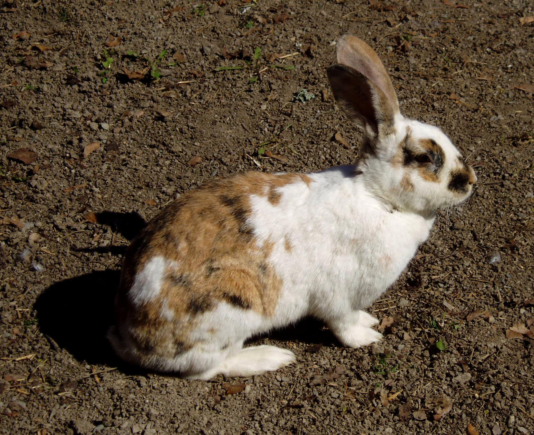 Swedish rabbit breed, Open-air museum, Västerås, Sweden